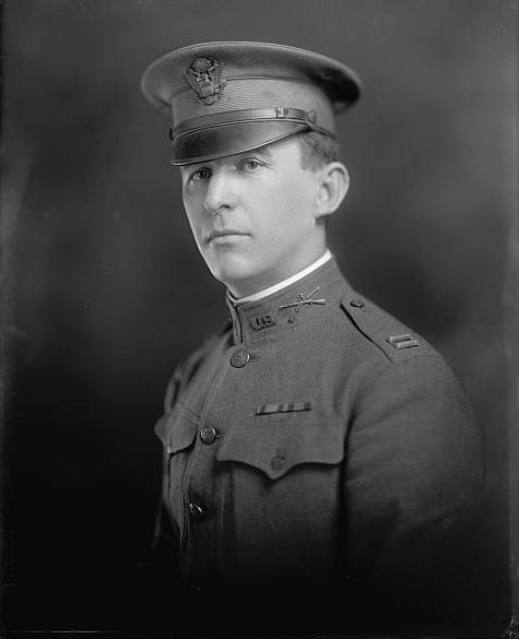 Walter Krueger (26 January 1881 – 20 August 1967) was an American soldier and general officer. He is best known for his command of the Sixth United States Army in the South West Pacific Area during World War II. Here shown as young Army Captain.